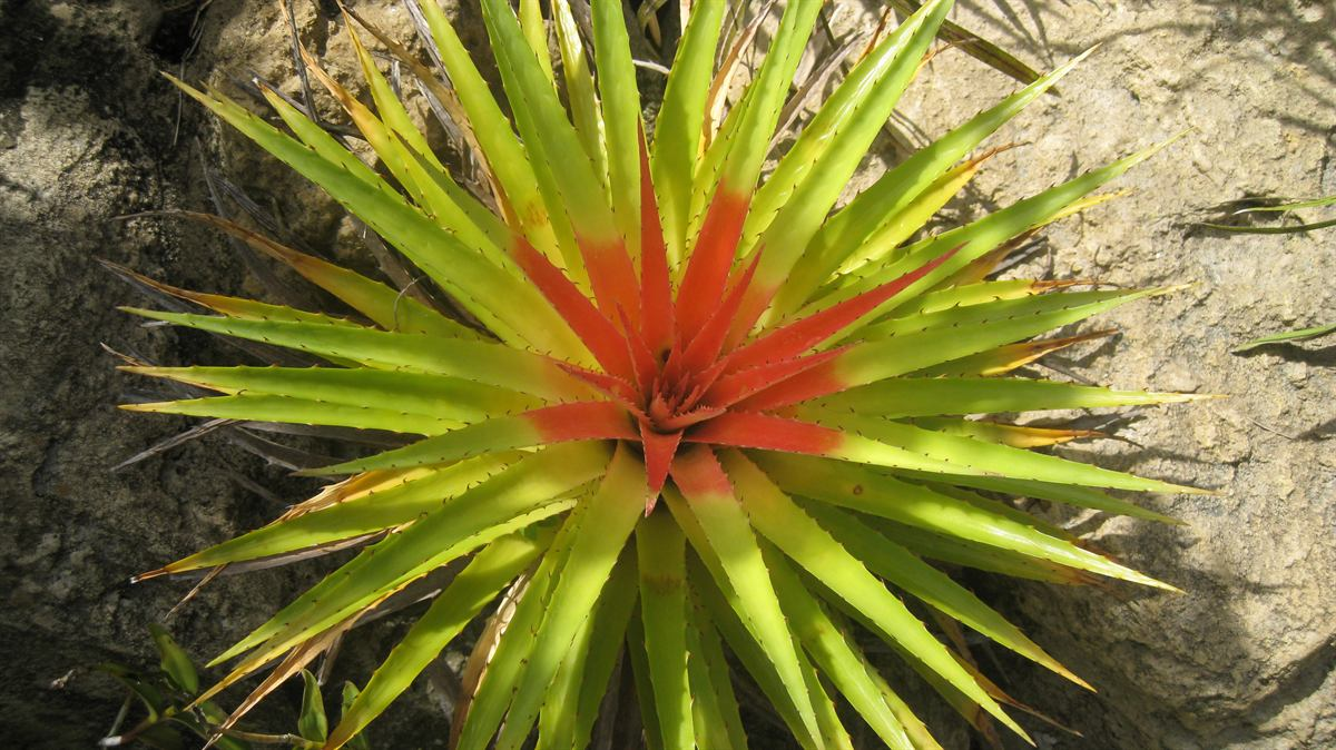 Plants/Bromeliad/Bromelia/humillis at AOS